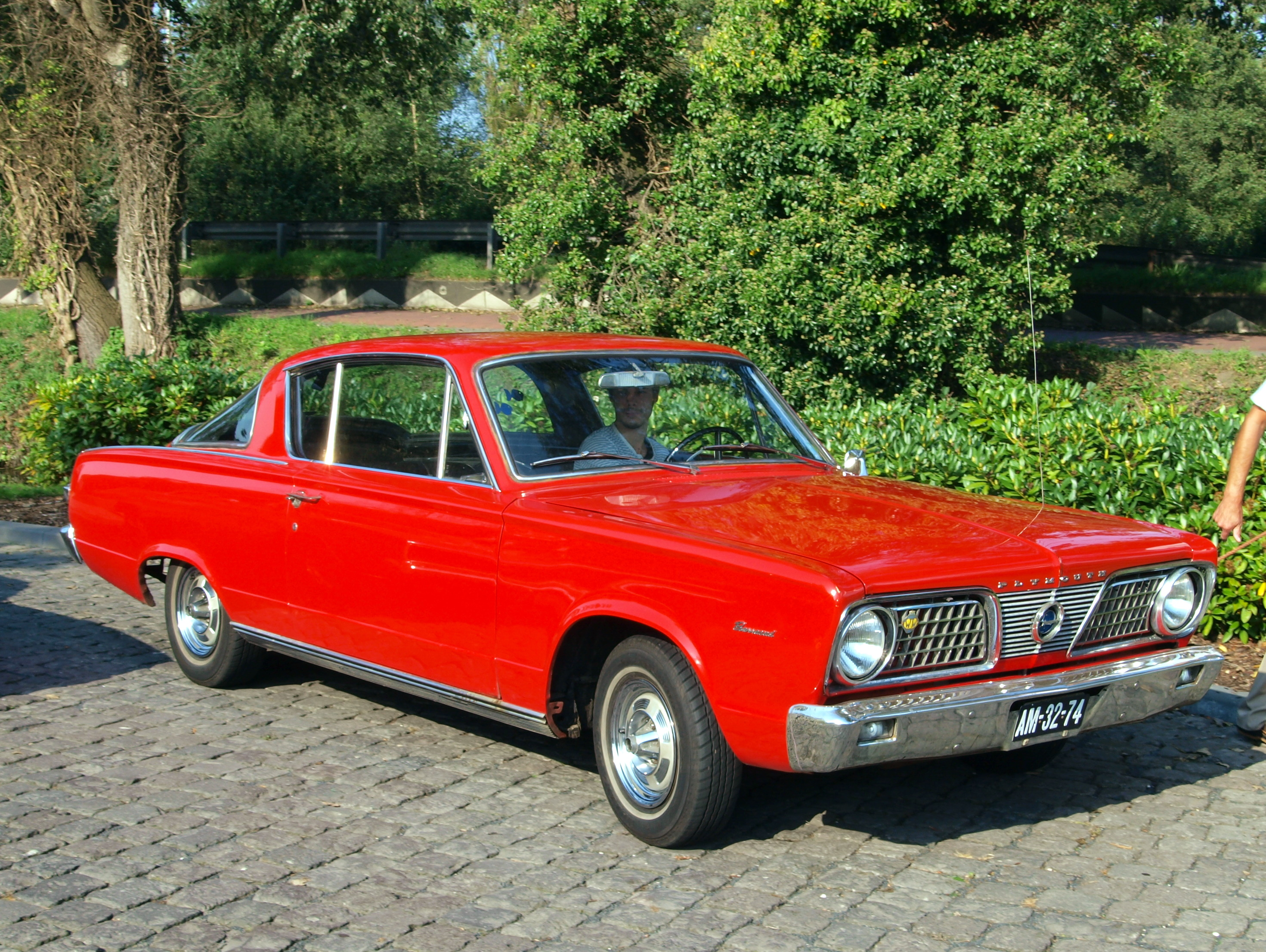 Photographed at the premmesis of the Louwman museum, The Hague, The Netherlands. OLYMPUS DIGITAL CAMERA